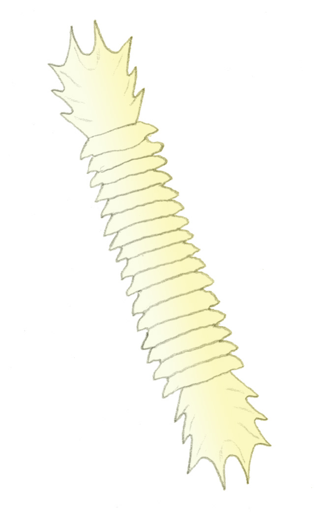 Reconstruction of Urokodia, an extinct arthropod